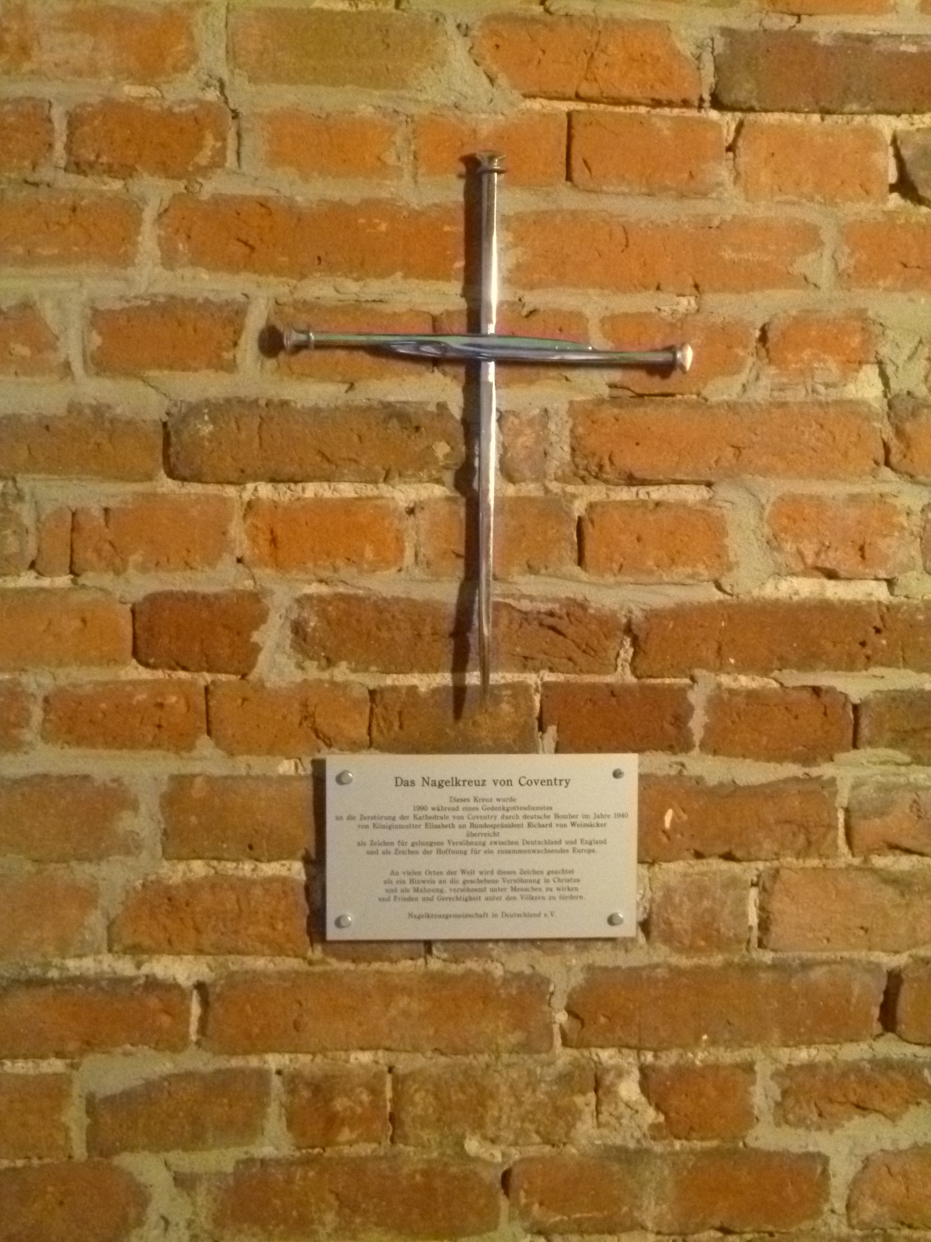 The nail cross of Coventry in the Deutscher Dom, Berlin, Germany; gift of the Queen-mother Elisabeth to the German president Richard von Weizsäcker in 1990